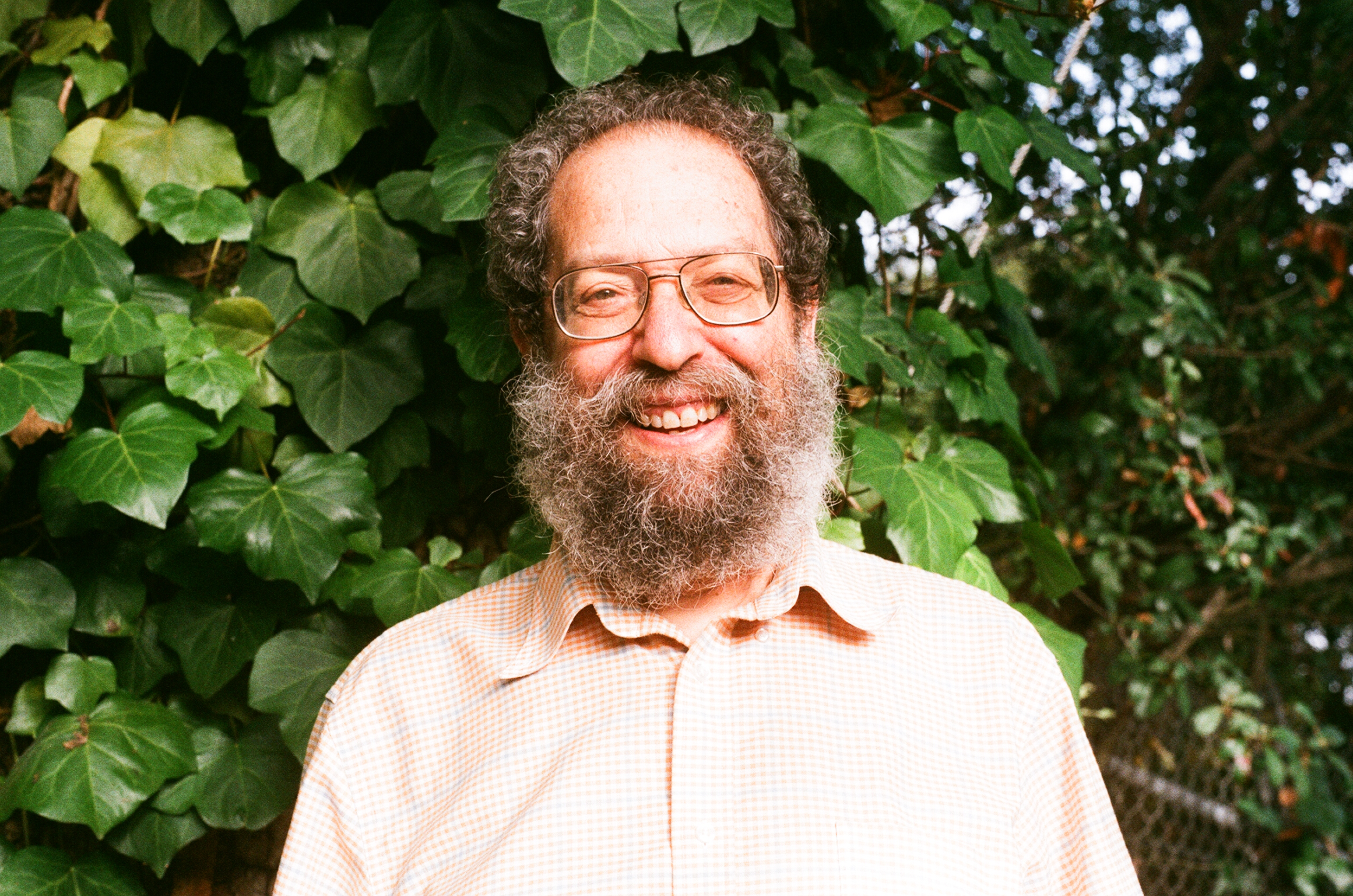 Self-portrait of George Bergman